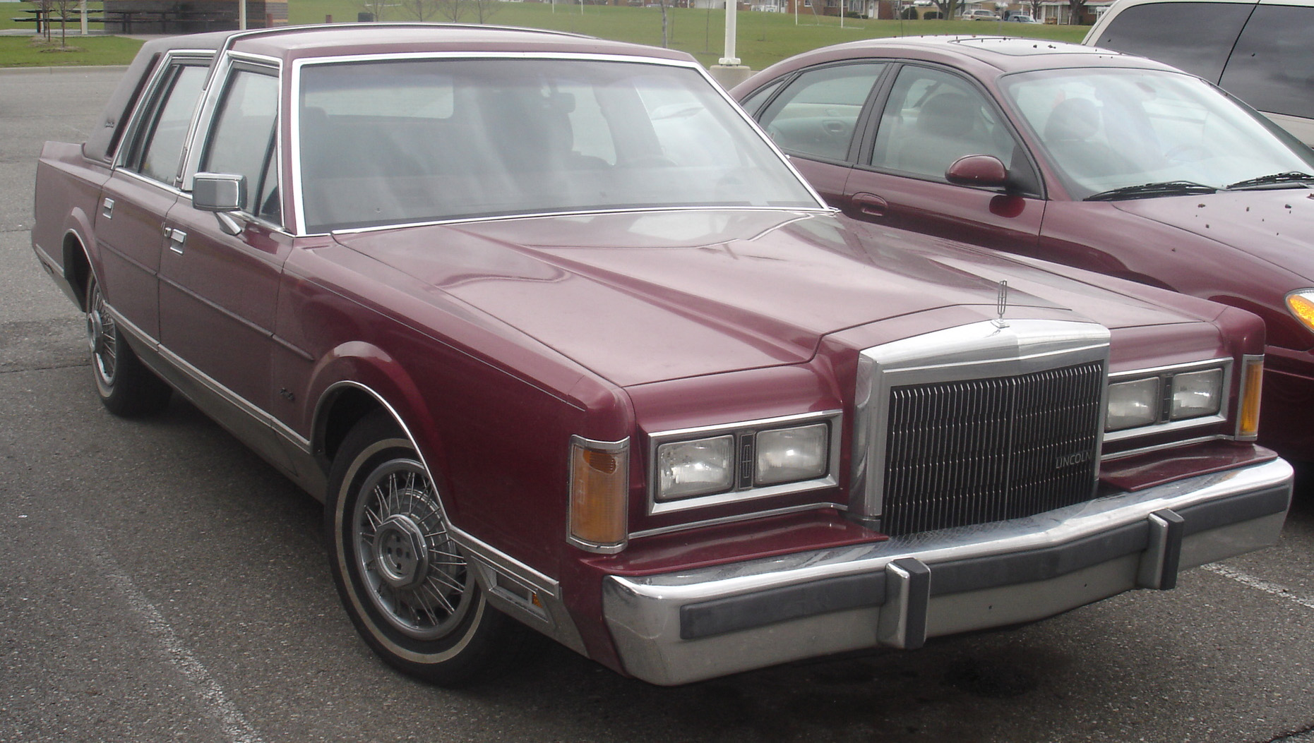 1989 Lincoln Town Car